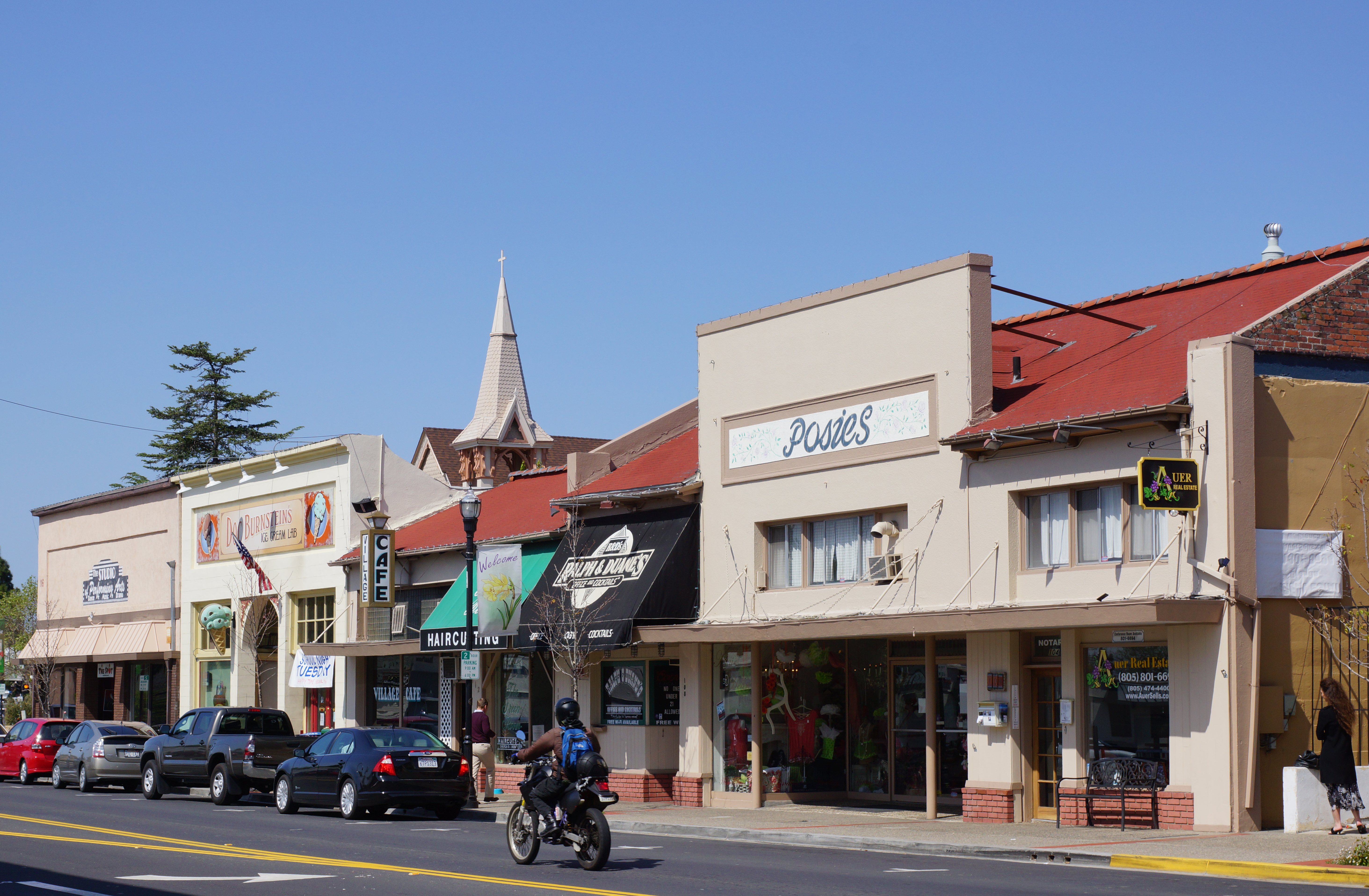 Arroyo Grande Village in 2012